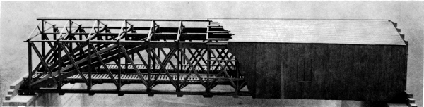 Title: The Engineering Contributions of Wendel Bollman Author: Robert M. Vogel Release Date: October 20, 2010 [EBook #33912] and specifically Page 80 Original caption Figure 2.—Model of B. H. Latrobe’s truss, built in 1838, over the Patapsco River at Elysville (now Daniels), Maryland. (Photo courtesy of Baltimore and Ohio Railroad.) Comment by uploader: The bridge was also referred as Little Schaffhausen according to the bridge built by Grubenmann in Schaffhausen, Switzerland.